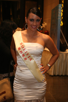 Miss Bolivia 2007 Sandra Lea Hernandez Saavedra in Miss World 07, Sanya, China